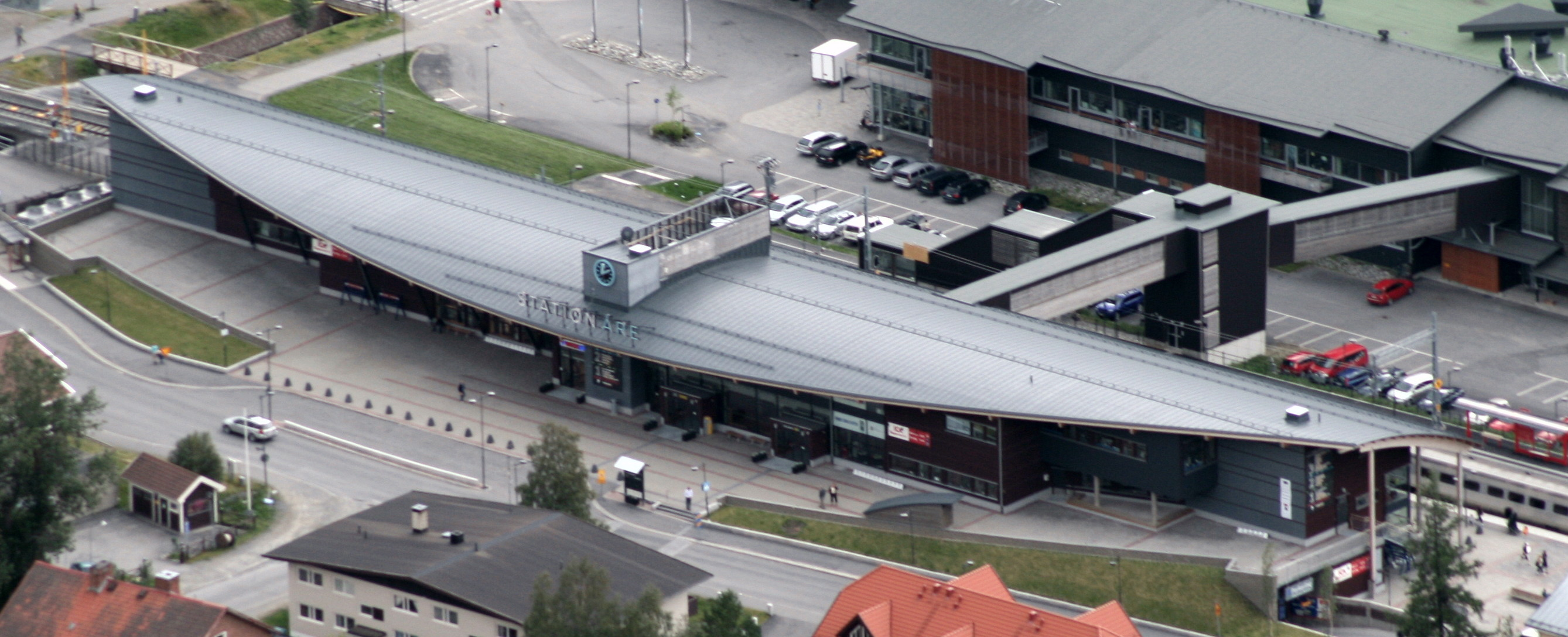 The railwaystation in Åre